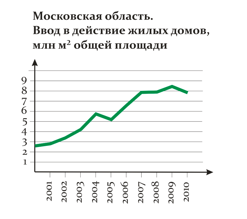 Housing construction in the Moscow region. 2000—2010